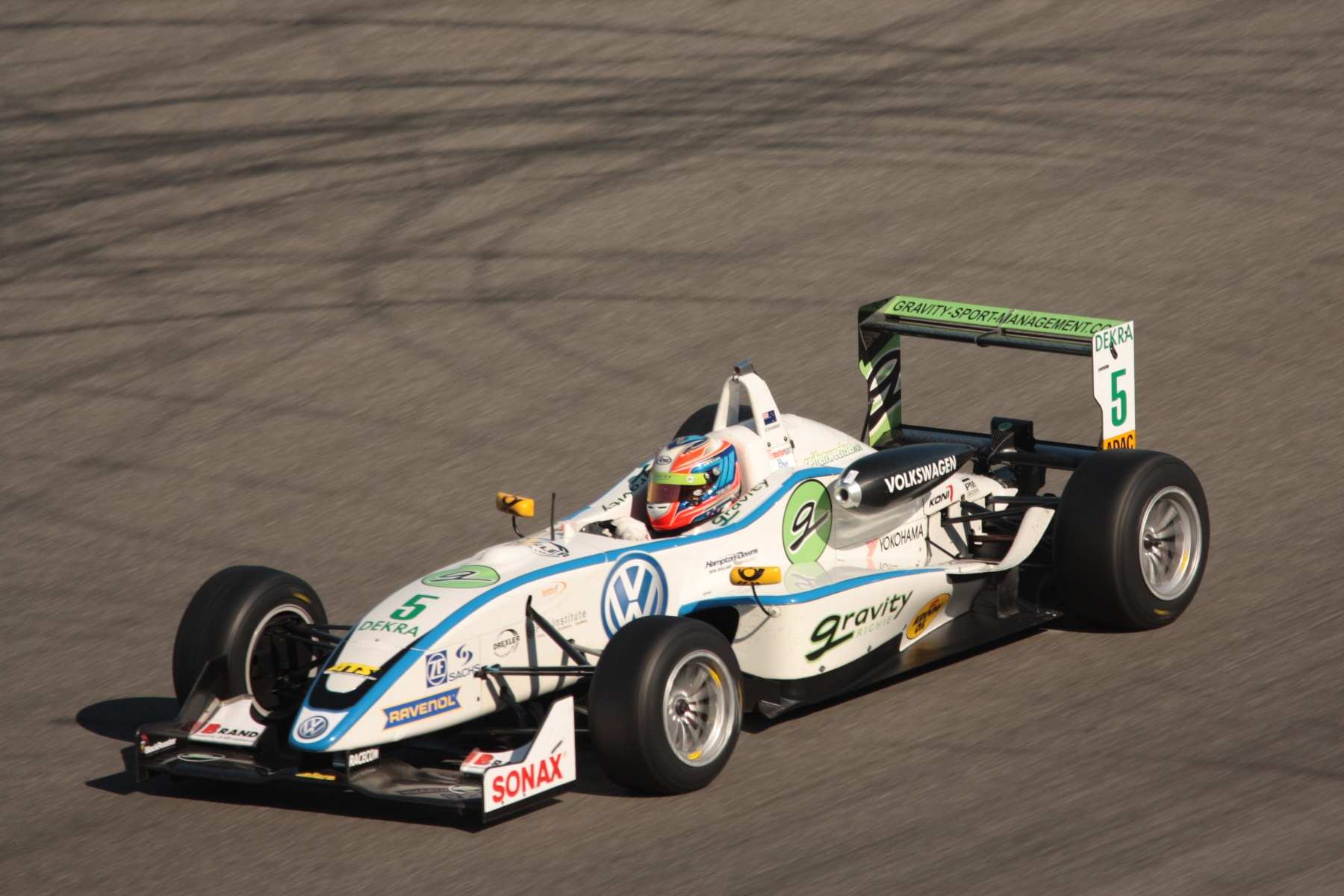 Richie Stanaway driving a Dallara F307 at the first race of ATS Formel-3-Cup at Hockenheimring 2011.